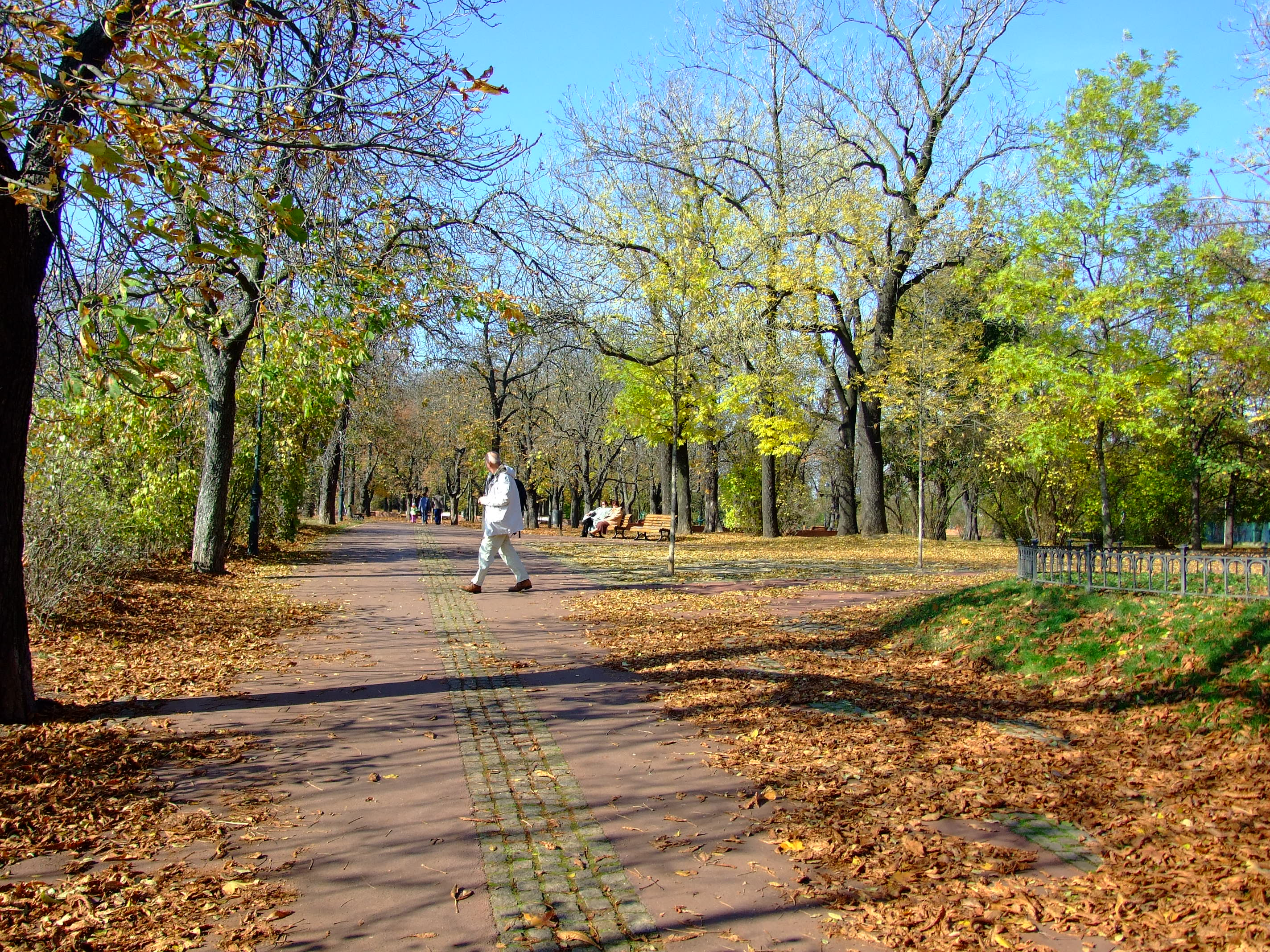 Letná park, Prague, CZhelp